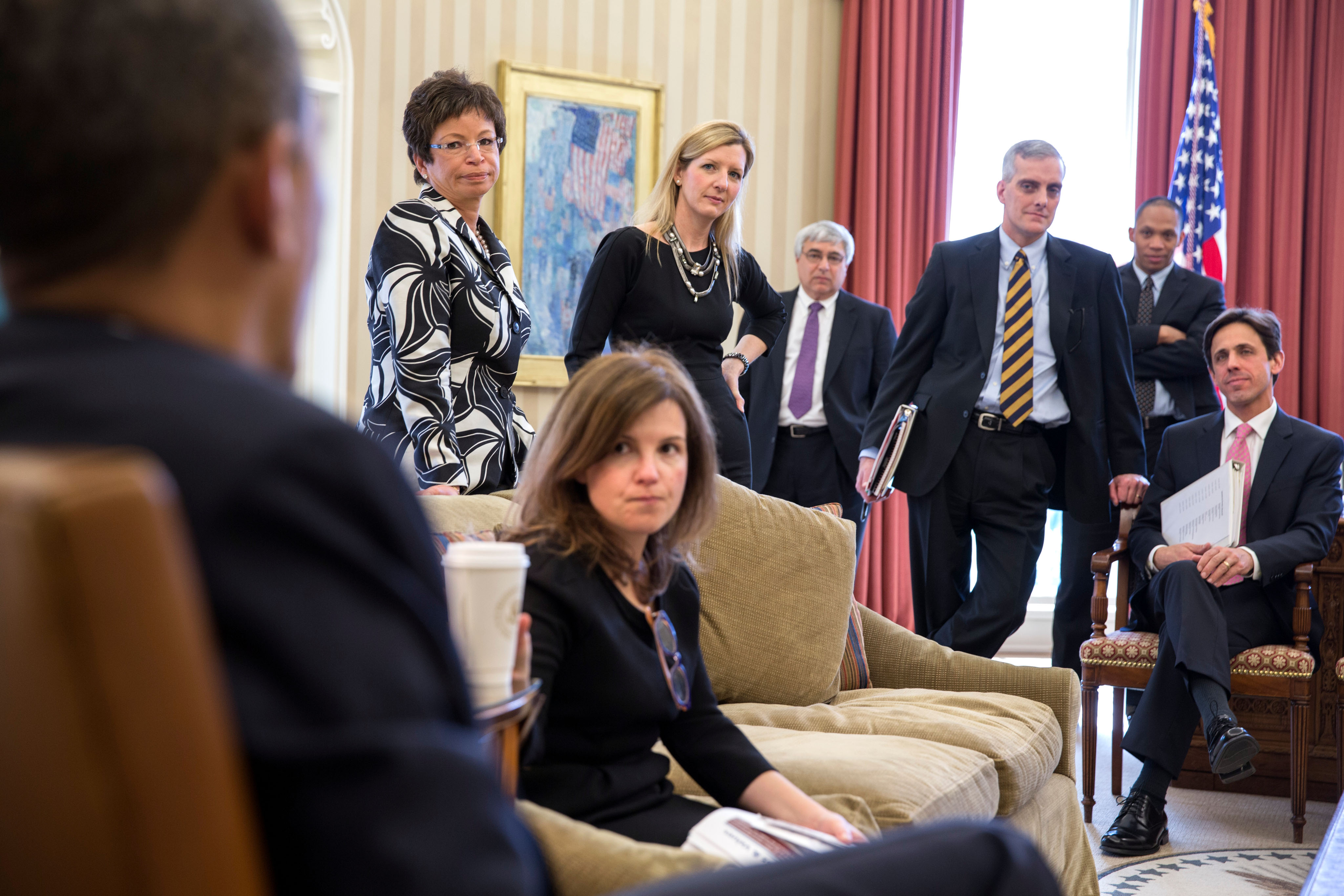 President Barack Obama meets with senior advisors in the Oval Office, March 26, 2013. Pictured, from left, are: Senior Advisor Valerie Jarrett; Alyssa Mastromonaco, Deputy Chief of Staff for Operations; Kathryn Ruemmler, Counsel to the President; Pete Rouse, Counselor to the President; Chief of Staff Denis McDonough; Rob Nabors, Deputy White House Chief of Staff for Policy; and David Simas, Deputy Senior Advisor for Communications and Strategy.